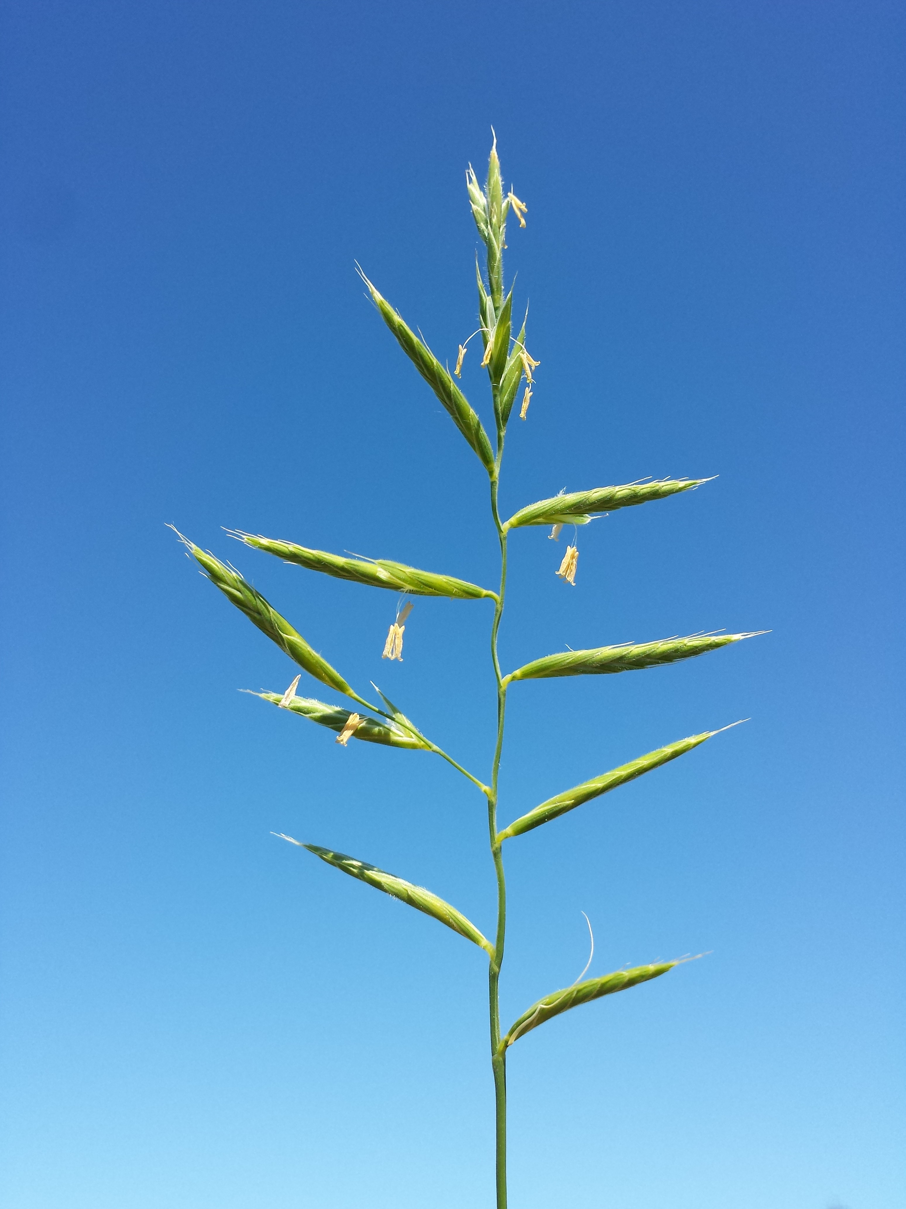 Spike Taxonym: Brachypodium pinnatum ss Fischer et al. EfÖLS 2008 ISBN 978-3-85474-187-9 Location: Latschenberg near Altenmarkt im Thale, district Hollabrunn, Lower Austria - ca. 330 m a.s.l. Habitat: semi-dry grassland